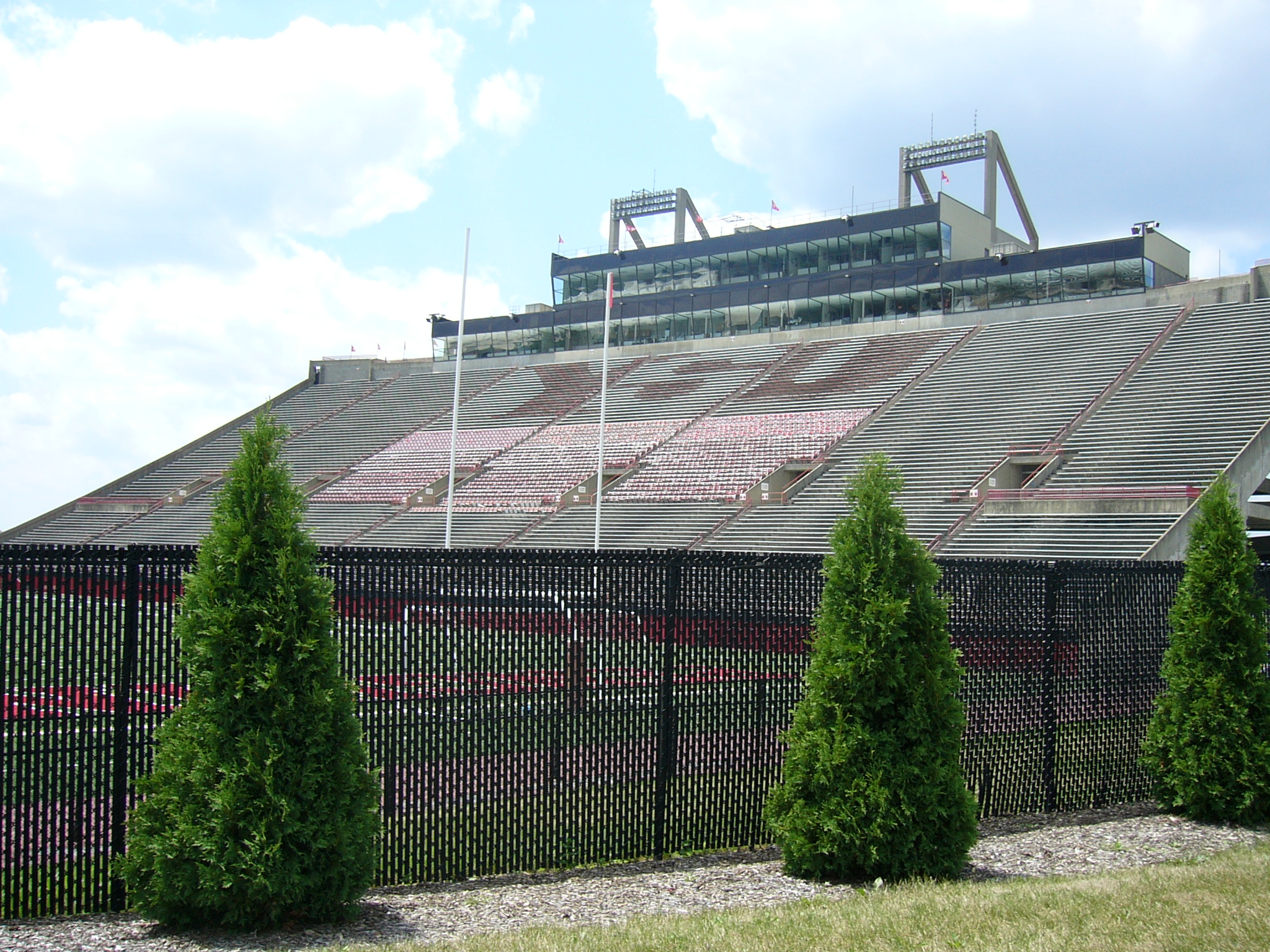 (photo by Blue80)